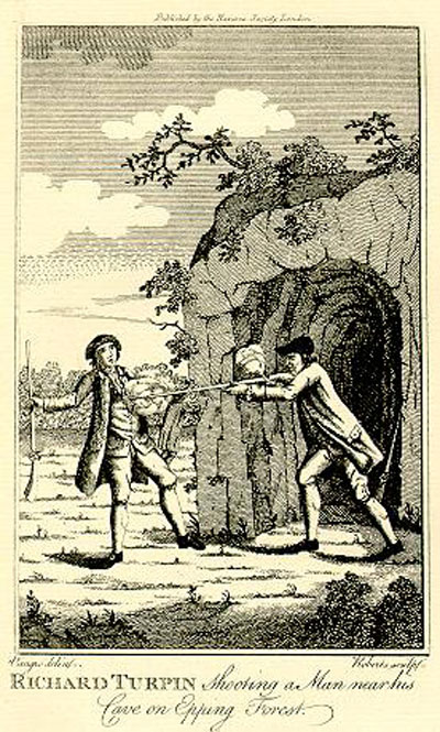 Richard Turpin shoots dead Thomas Morris, outside his cave at Epping Forest